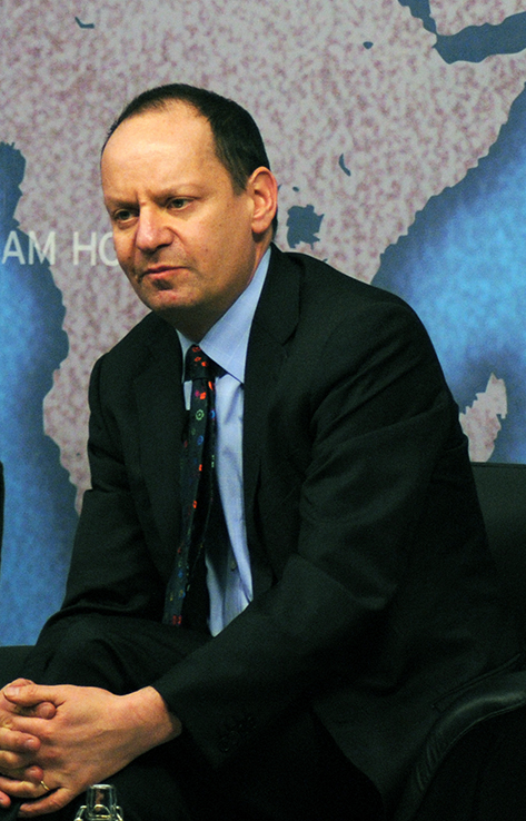 Philippe Sands at the Chatham House